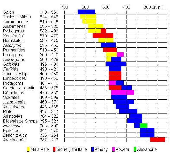 Chronology of Greek philosophers.)